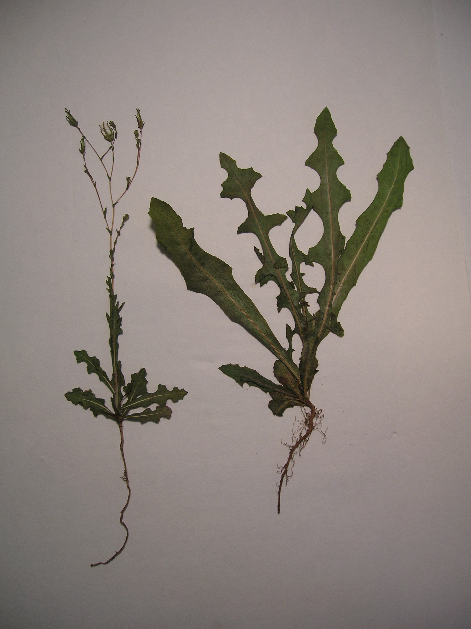 Lactuca sativa (voucher 060405 05). Location: Maui, Molokini